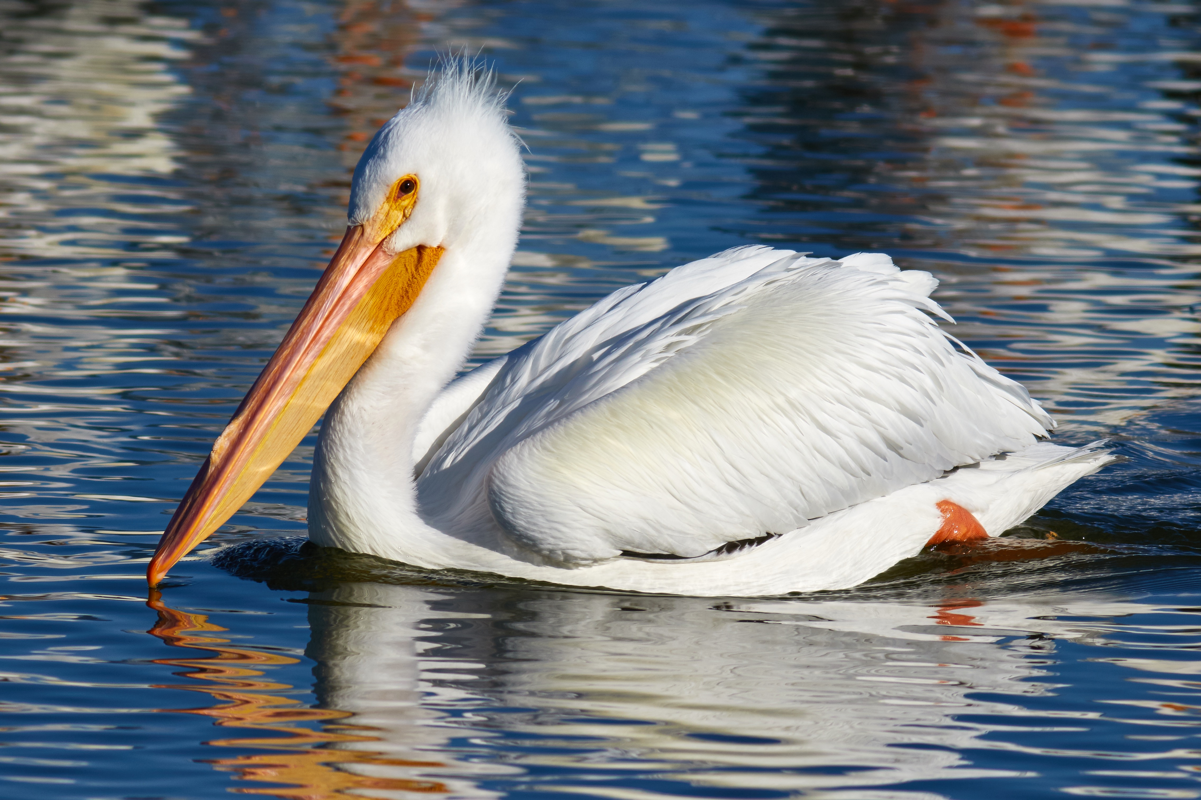 American White Pelican (Pelecanus erythrorhynchos) at Las Gallinas Wildlife Ponds, Marin County, California.